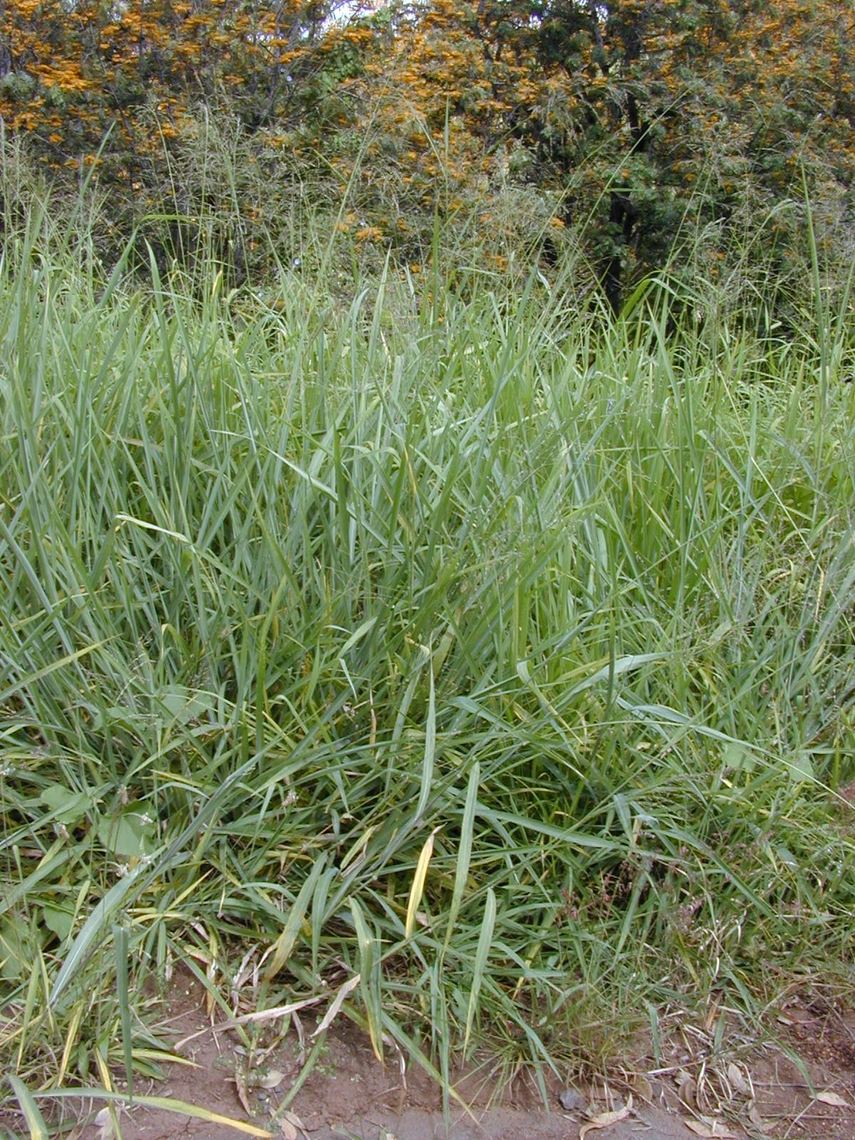 Panicum maximum (habit). Location: Maui, Kula